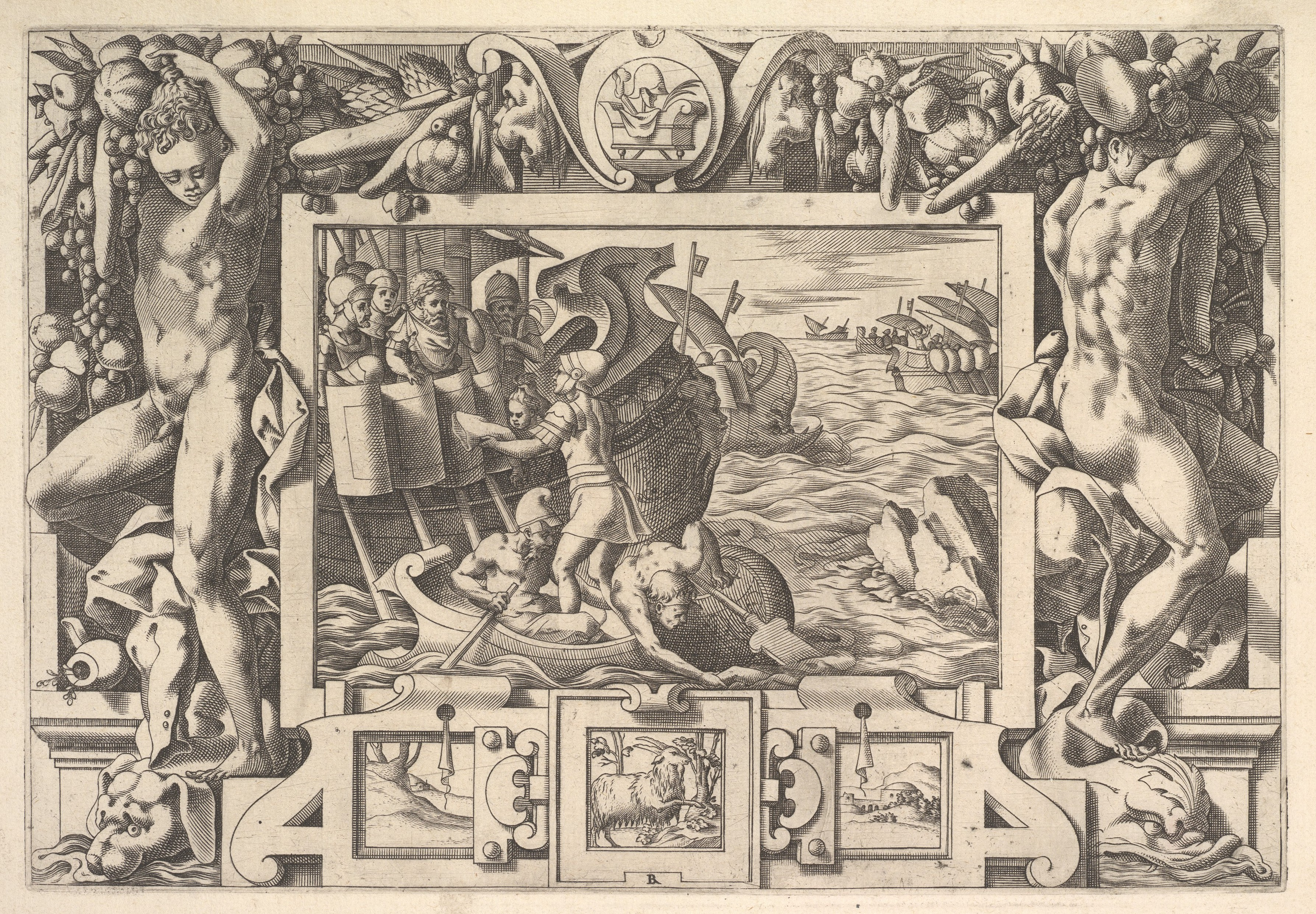 Print Ornament & Architecture; Prints